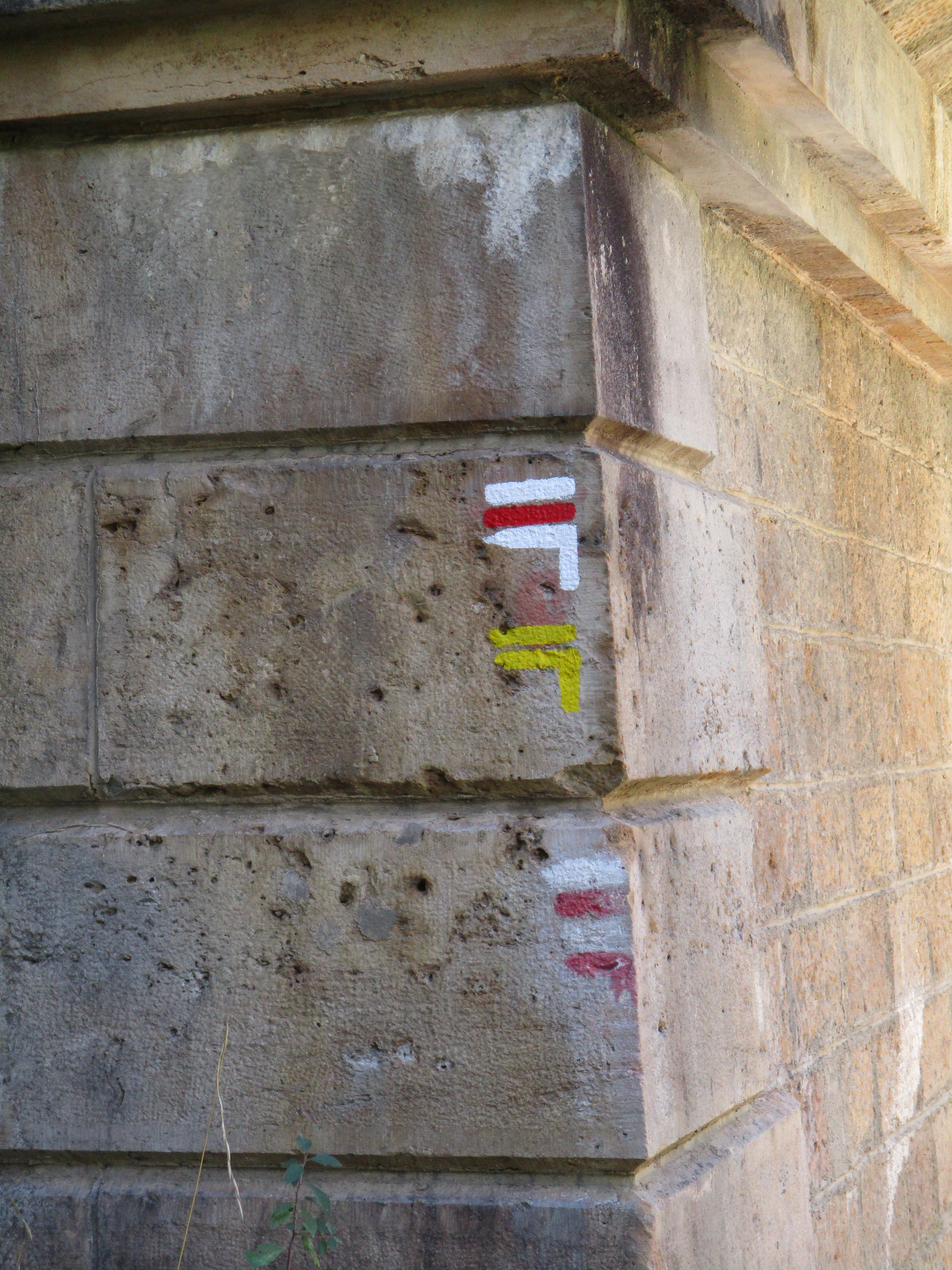 Saint-Moré, south of Yonne, Burgundy, France. GR13 et GR654 signs on railway bridge over the Cure river, south side of the Côte de Char. Looking west.